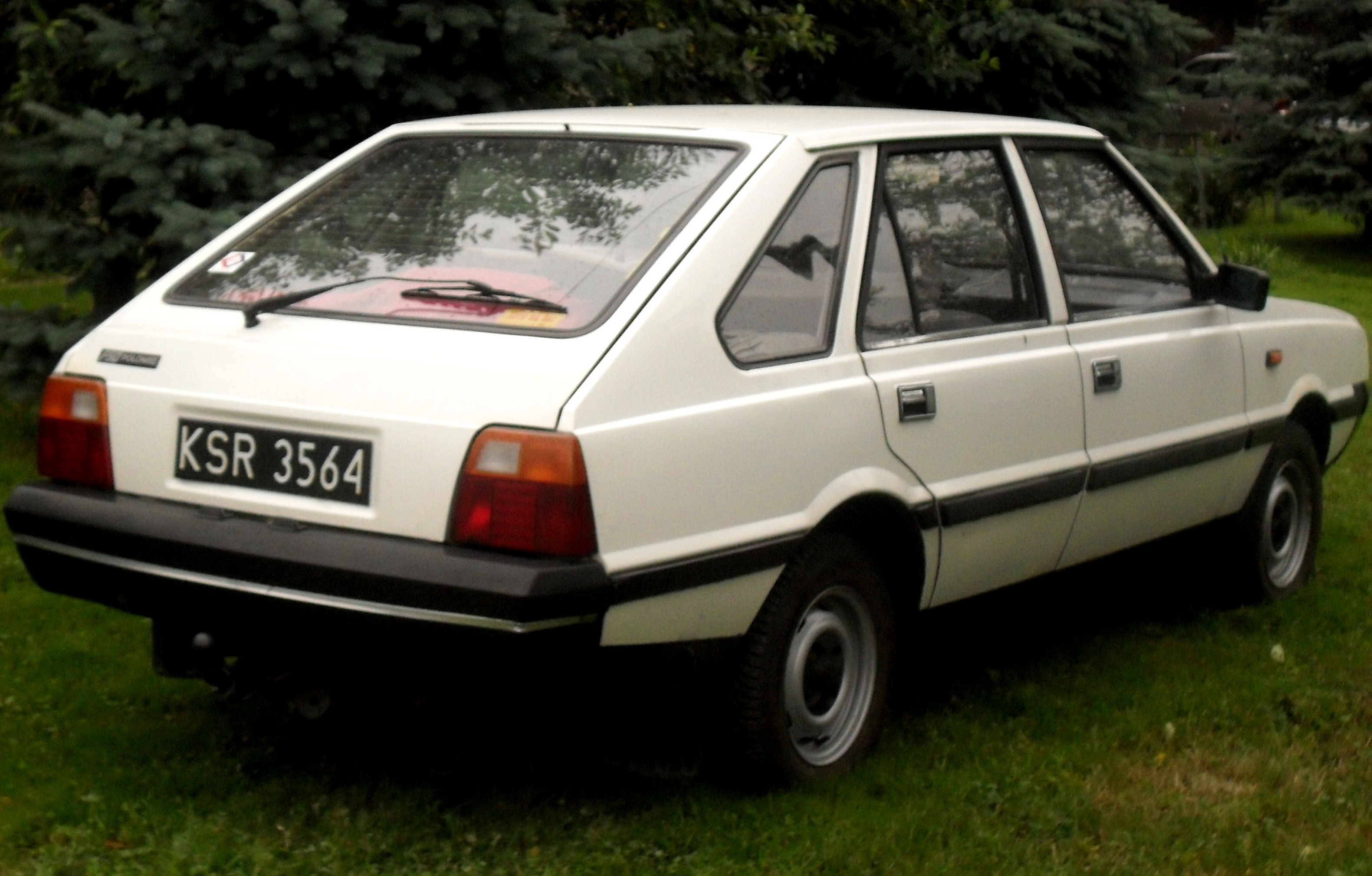 FSO Polonez MR'89 seen in Jasło, Poland.